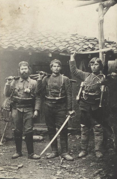 IMRO members, with Asen Rupchev from Bansko